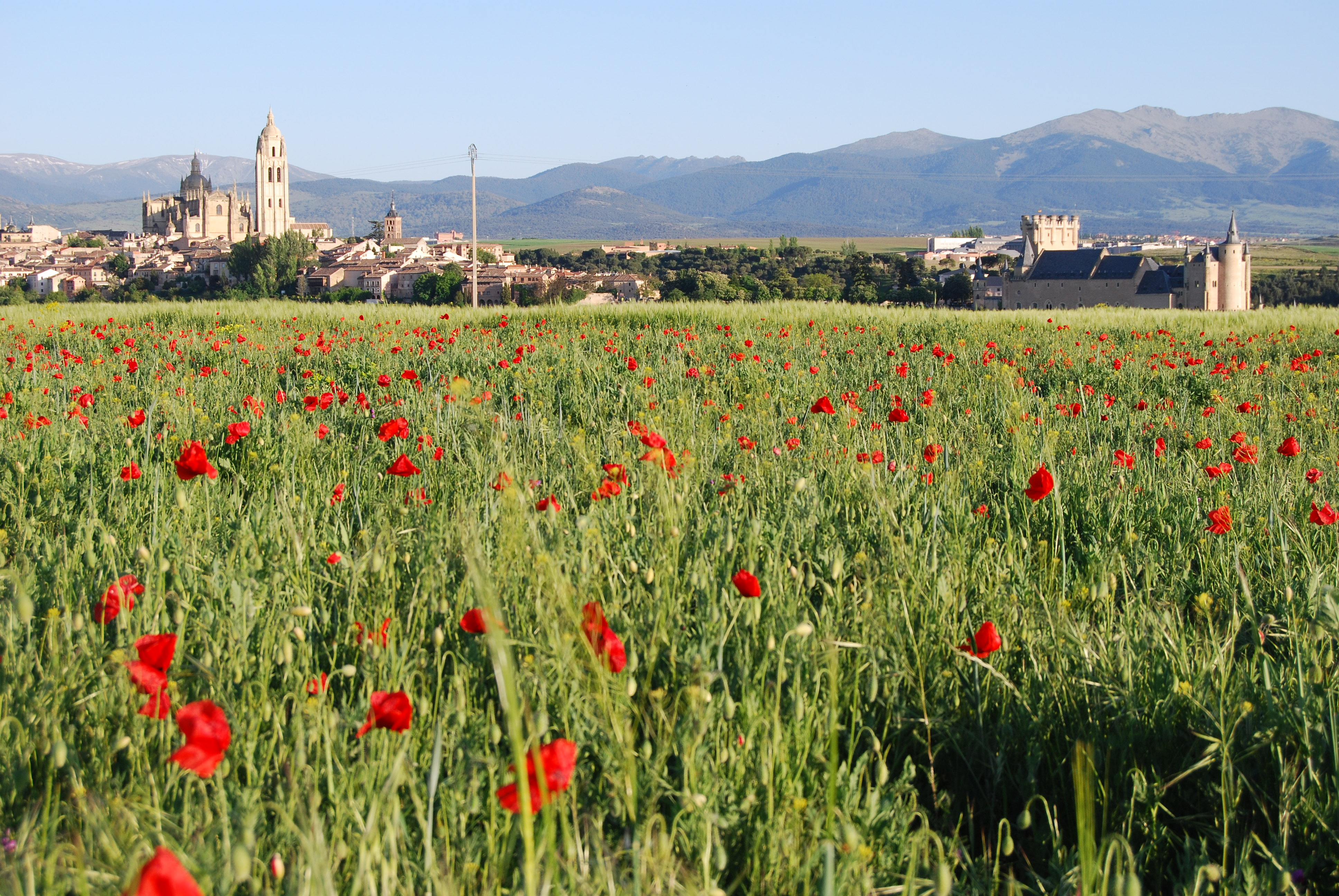 "I know no one who, having come to this place not been conquered by this amazing sight," said Robert Gillon so and so was immortalized on a plaque in the chapel of San Roque in Zamarramala, is that, for most times one pass through these places, the truth is never cease to amaze and impress. Also this year with the spring explosion that has occurred after the recent rains the colors that can be seen are simply spectacular.